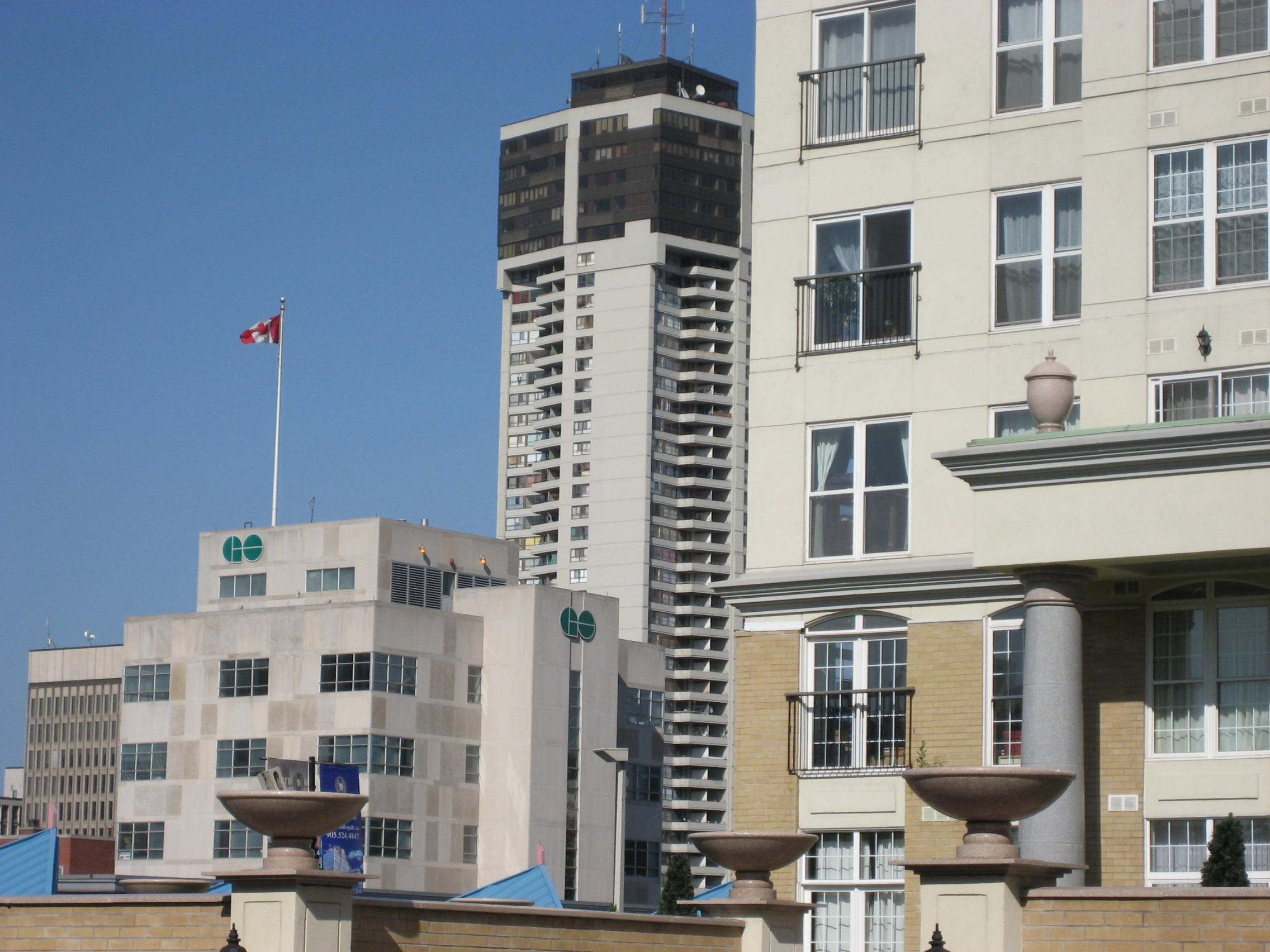 Landmark Place & Go Station, view from James Street South, downtown Hamilton, Ontario